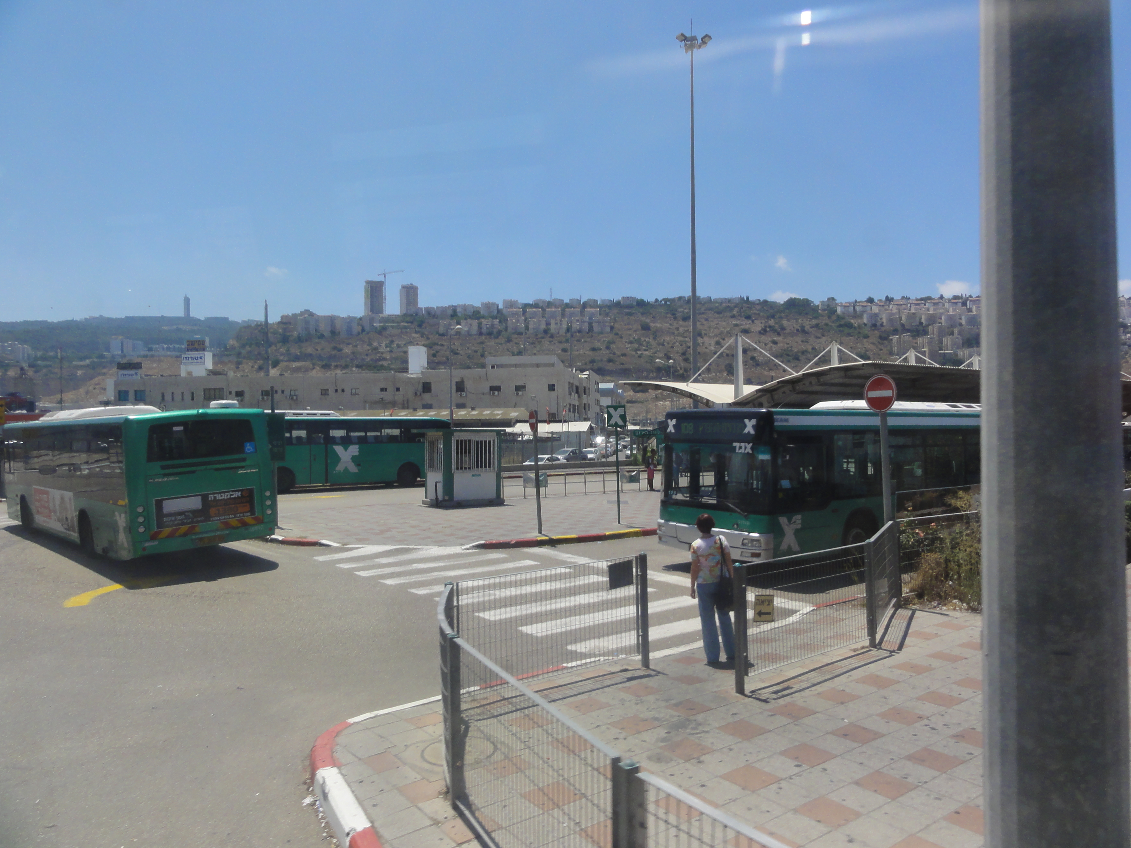 Central Bus station in Haifa, Israel.